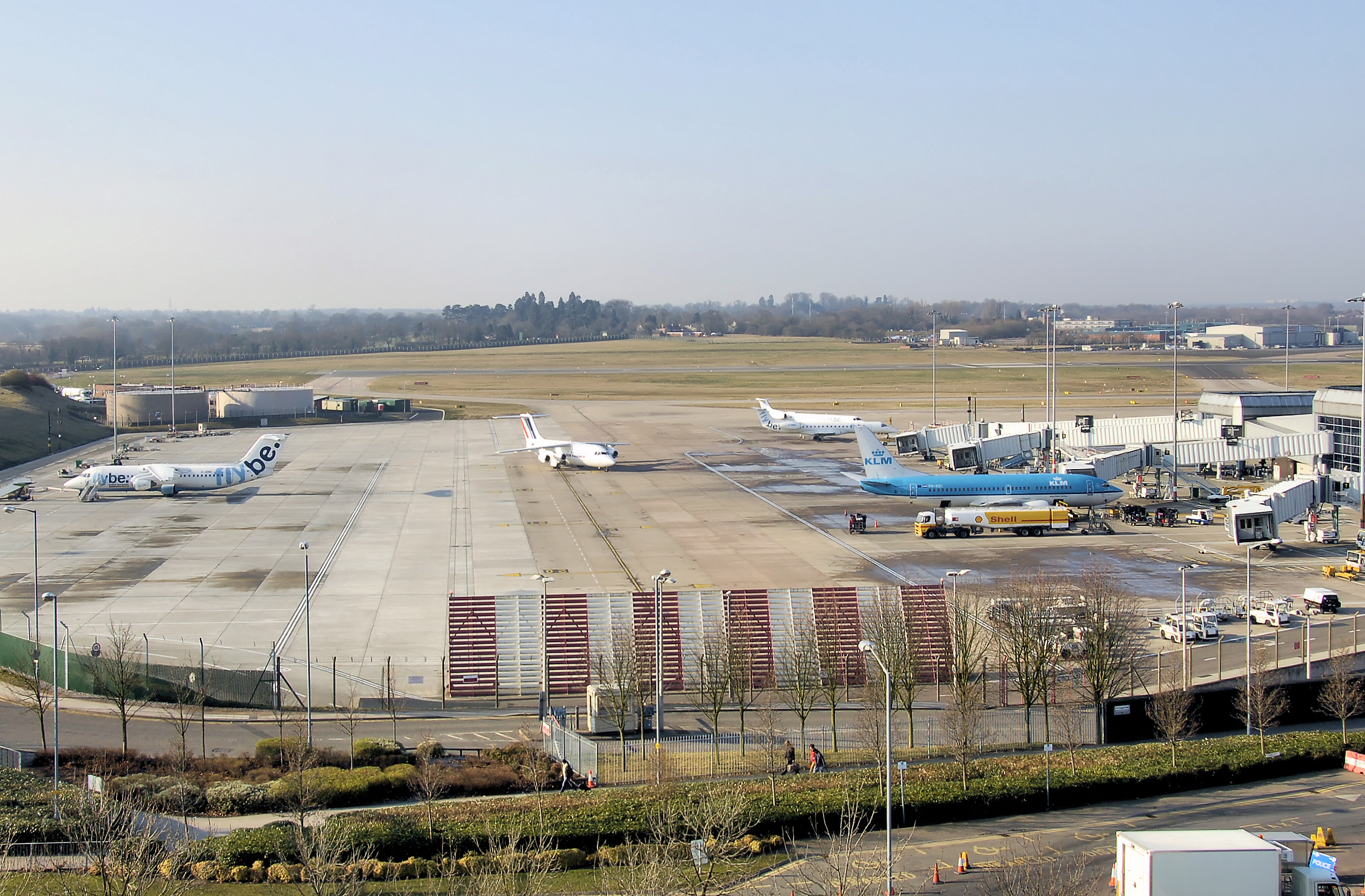 Part of the apron at Birmingham International Airport, England. The runway is seen beyond. The airlines seen are FlyBe, KLM and Air France.